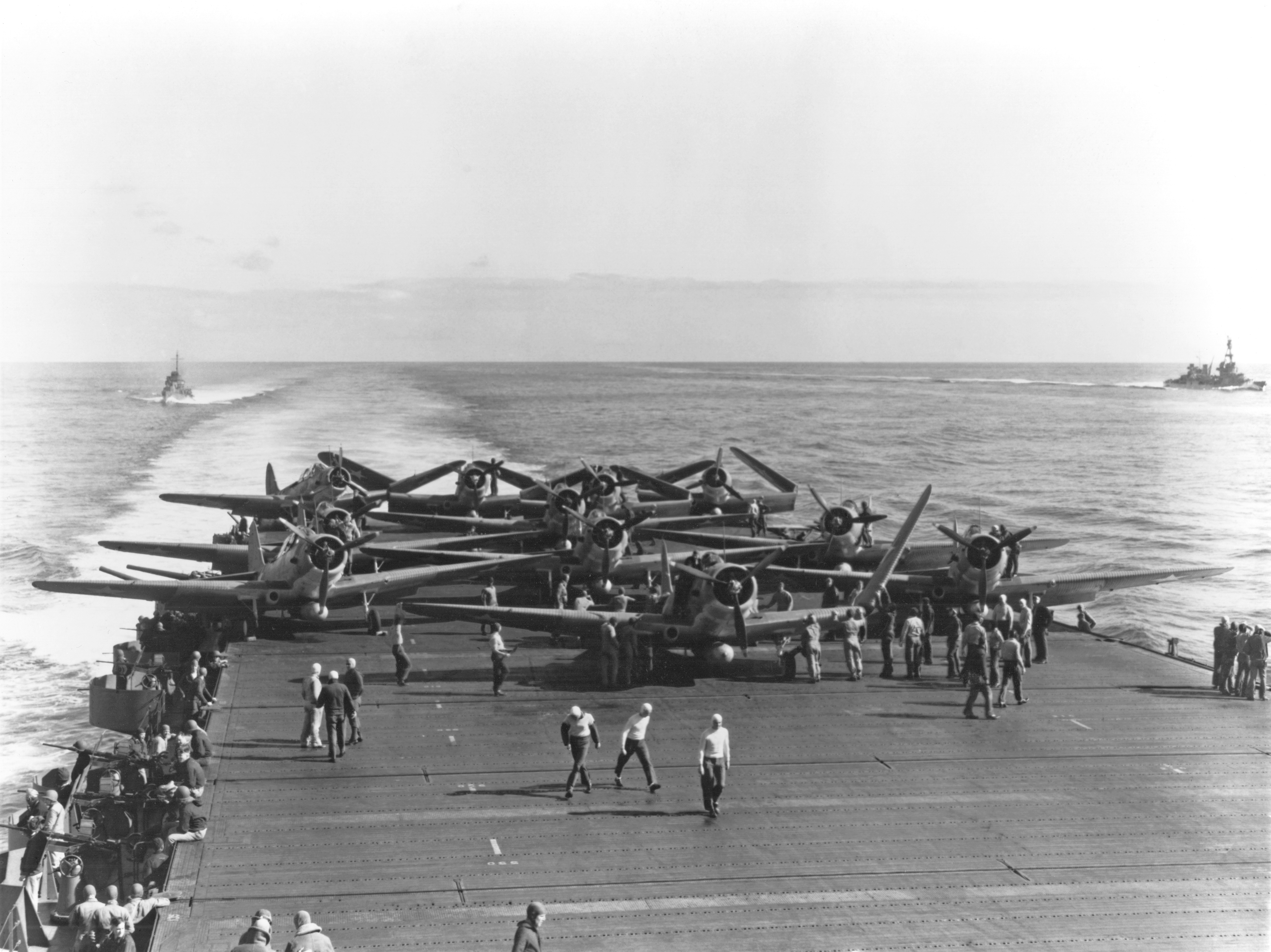 U.S. Navy Torpedo Squadron 6 (VT-6) Douglas TBD-1 Devastator aircraft are prepared for launching aboard the aircraft carrier USS Enterprise (CV-6) at about 0730-0740 hrs, 4 June 1942. Eleven of the fourteen TBDs launched from Enterprise are visible. Three more TBDs and ten Grumman F4F-4 Wildcat fighters must still be pushed into position before launching can begin. The TBD in the left front is Number Two (BuNo 1512), flown by Ensign Severin L. Rombach and Aviation Radioman 2nd Class W.F. Glenn. Along with eight other VT-6 aircraft, this plane and its crew were lost attacking Japanese aircraft carriers somewhat more than two hours later. The heavy cruiser USS Pensacola (CA-24) is in the right distance and a destroyer is in plane guard position at left.